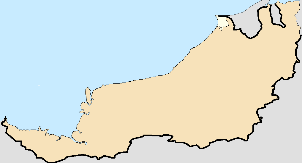 Location map of Miri, a city within the Malaysian state of Sarawak.